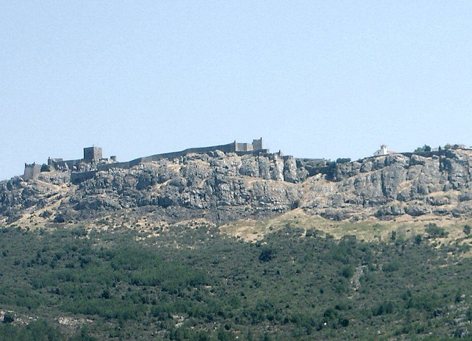 cropped from Image:Marvão.JPG